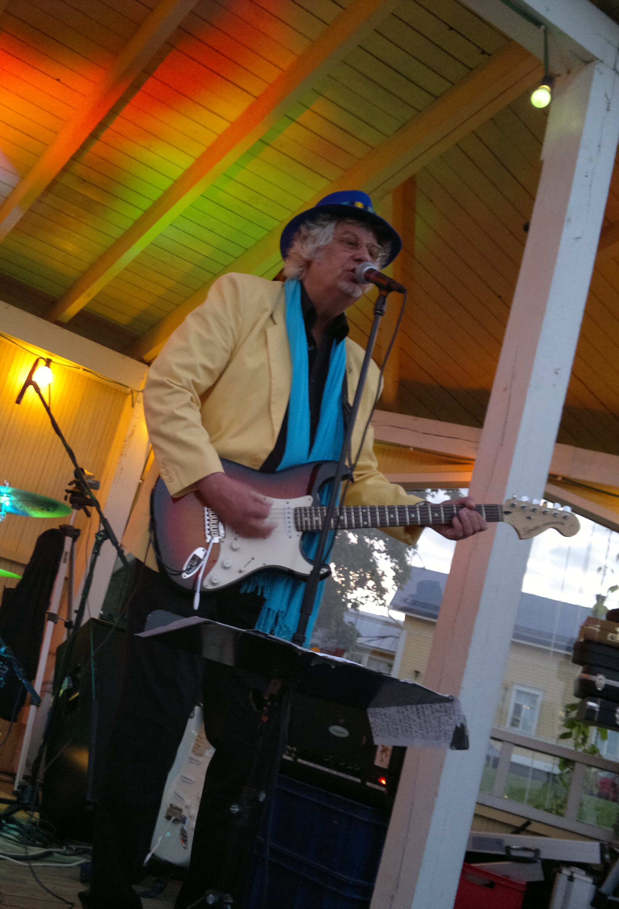 Finnish guitar player Hasse Walli in Tuulaaki, Joensuu.